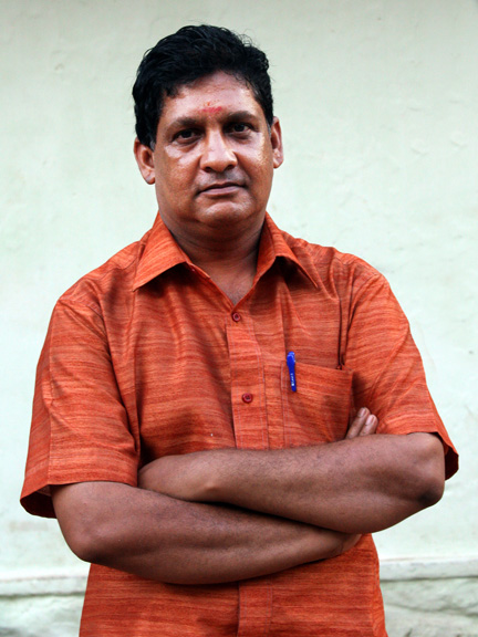 Margi Vijayakumar is a noted Kathakali artiste who has specialised in female roles in the classical dance-drama from Kerala, south India.